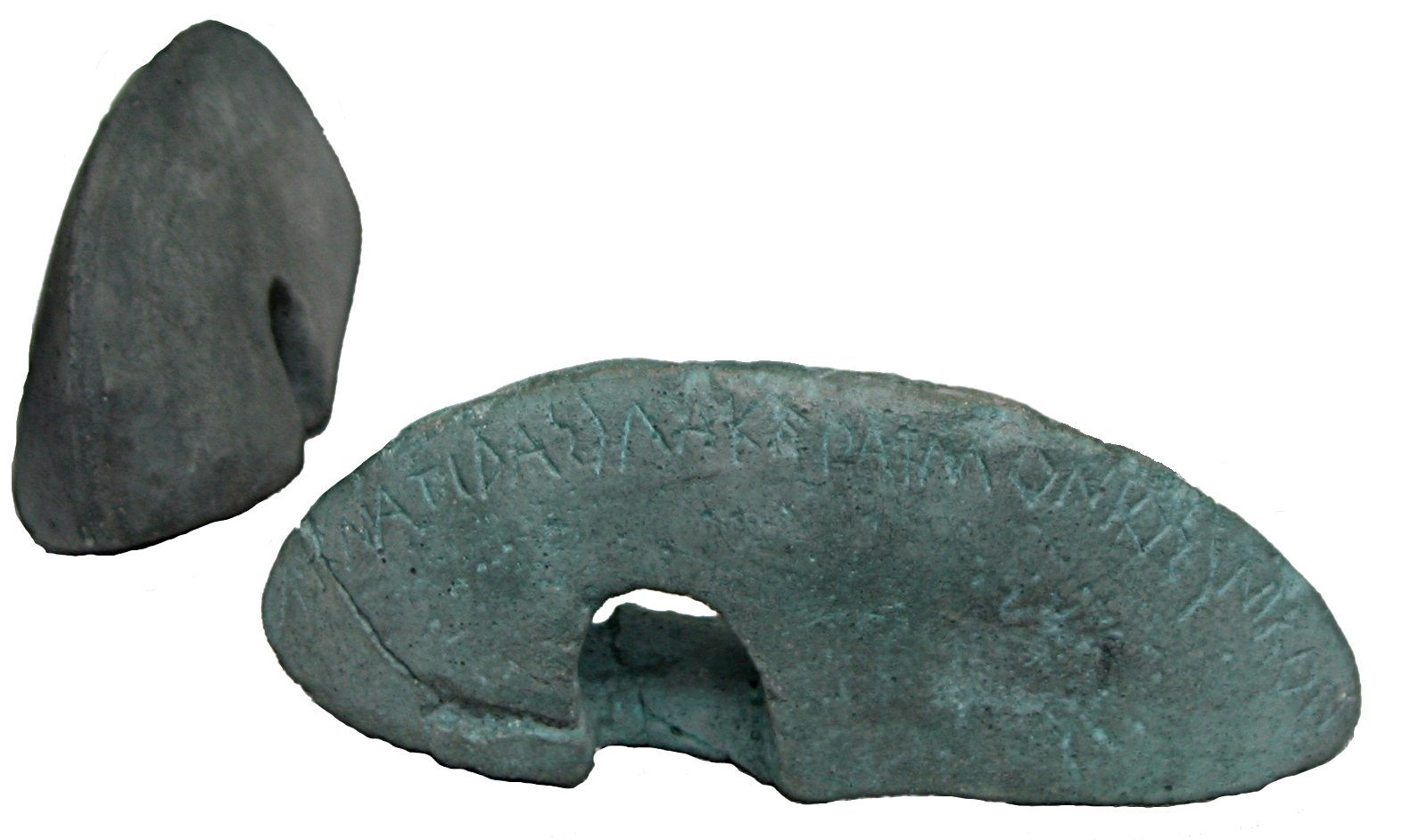 Ancient Greek jumping weights (4.629 kg) dedicated to Zeus by Akmatidas of Sparta. Archaeological Museum of Olympia, A 189.